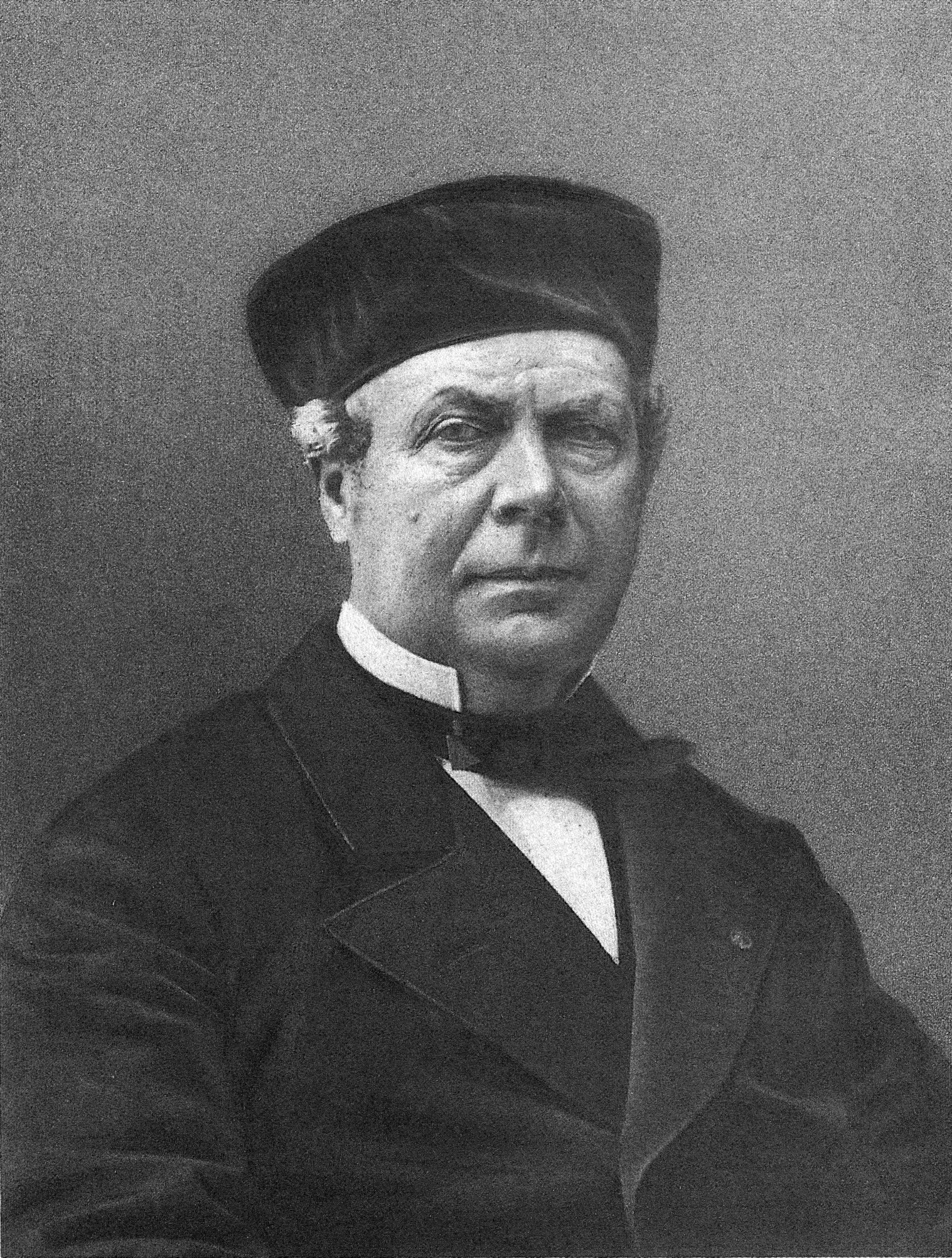 Aristide Cavaillé-Coll at age 83 Heliography by Dujardin